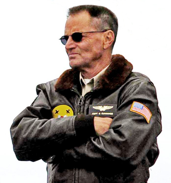 Sam Shepard. Cropped from File:Sam Shepard Stealth.jpg